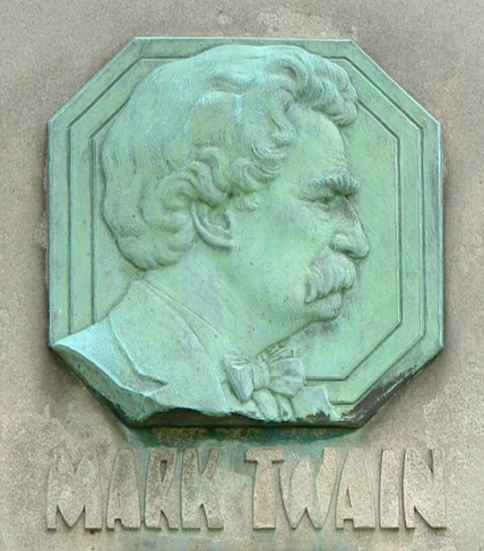 Plate on the Tombstone on Mark Twains grave in Elmira, NY.